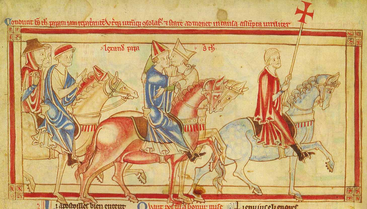 Thomas Becket takes leave of Pope Alexander III in the autumn of 1165